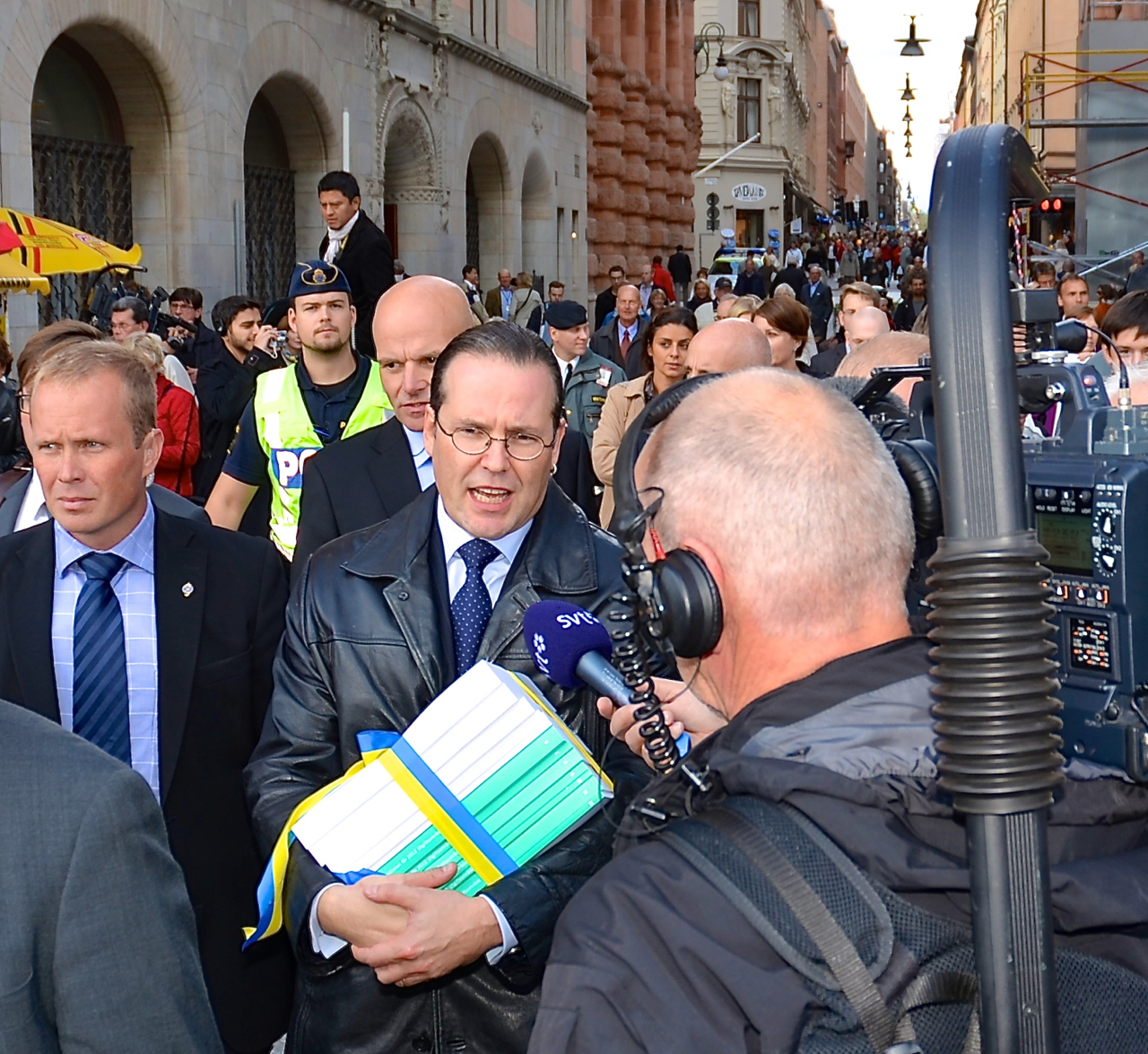 Swedish Minister for Finance Anders Borg, with the 2012 budget proposition, during tthe walk to Parliament, September 20th 2011.